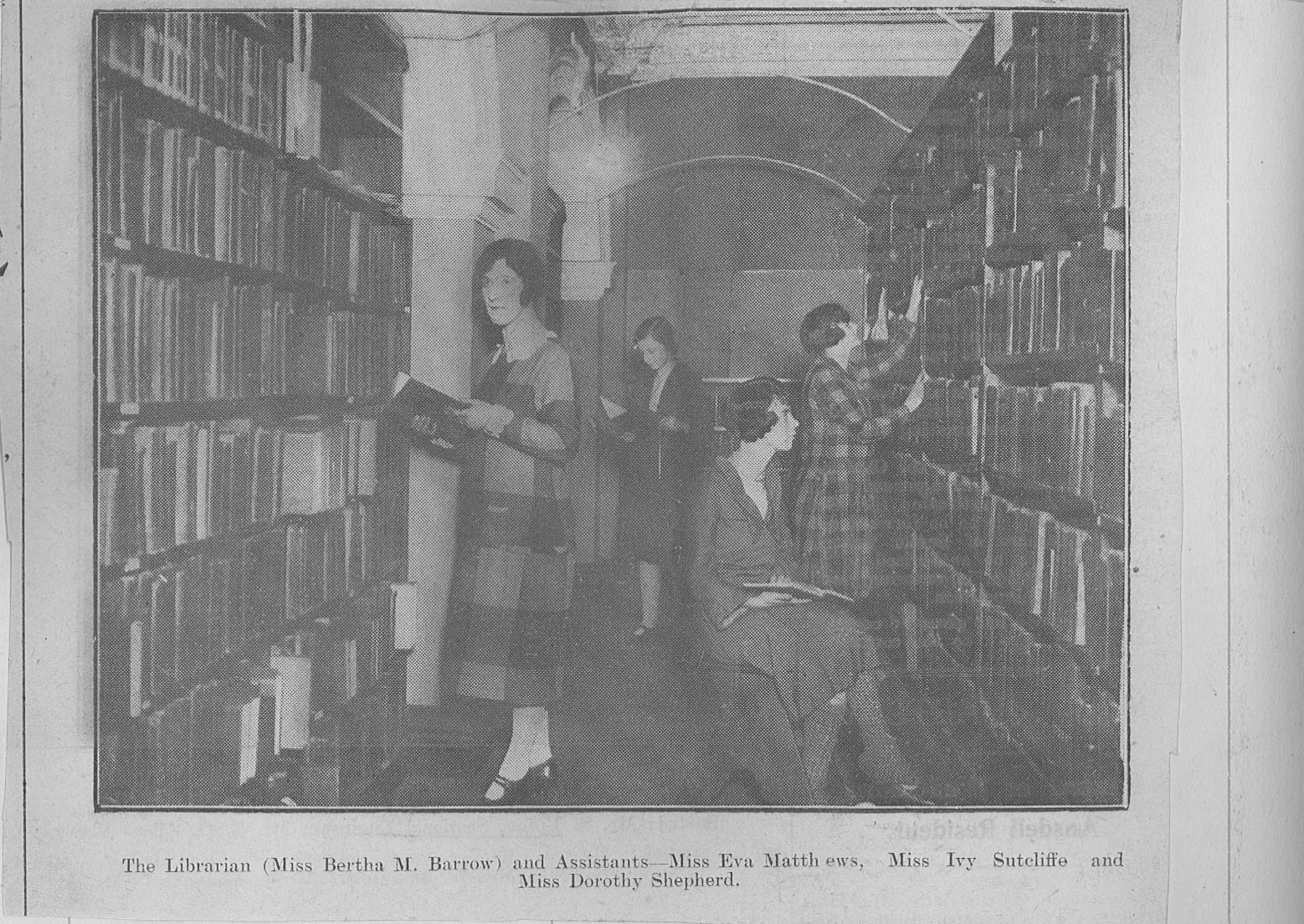 Miss Bertha Barrow, Borough Librarian and Library Assistants. The picture accompanied an article to celebrate St Annes Library's 21st anniversary